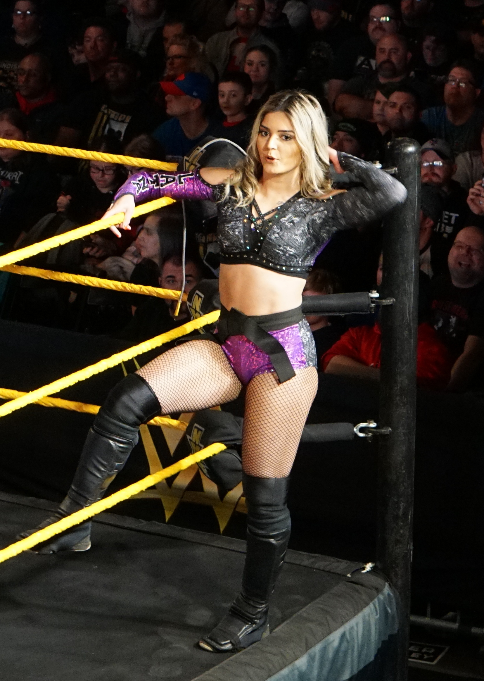 Conti at a NXT live show in Buffalo, NY.